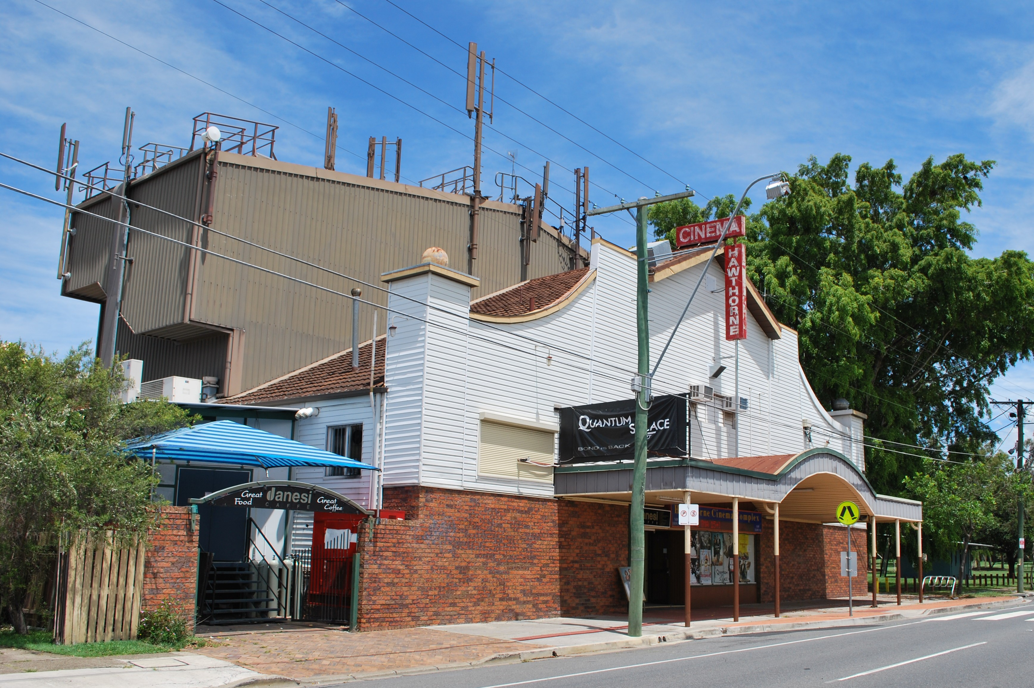 Hawthorne Cinema at Hawthorne, Queensland